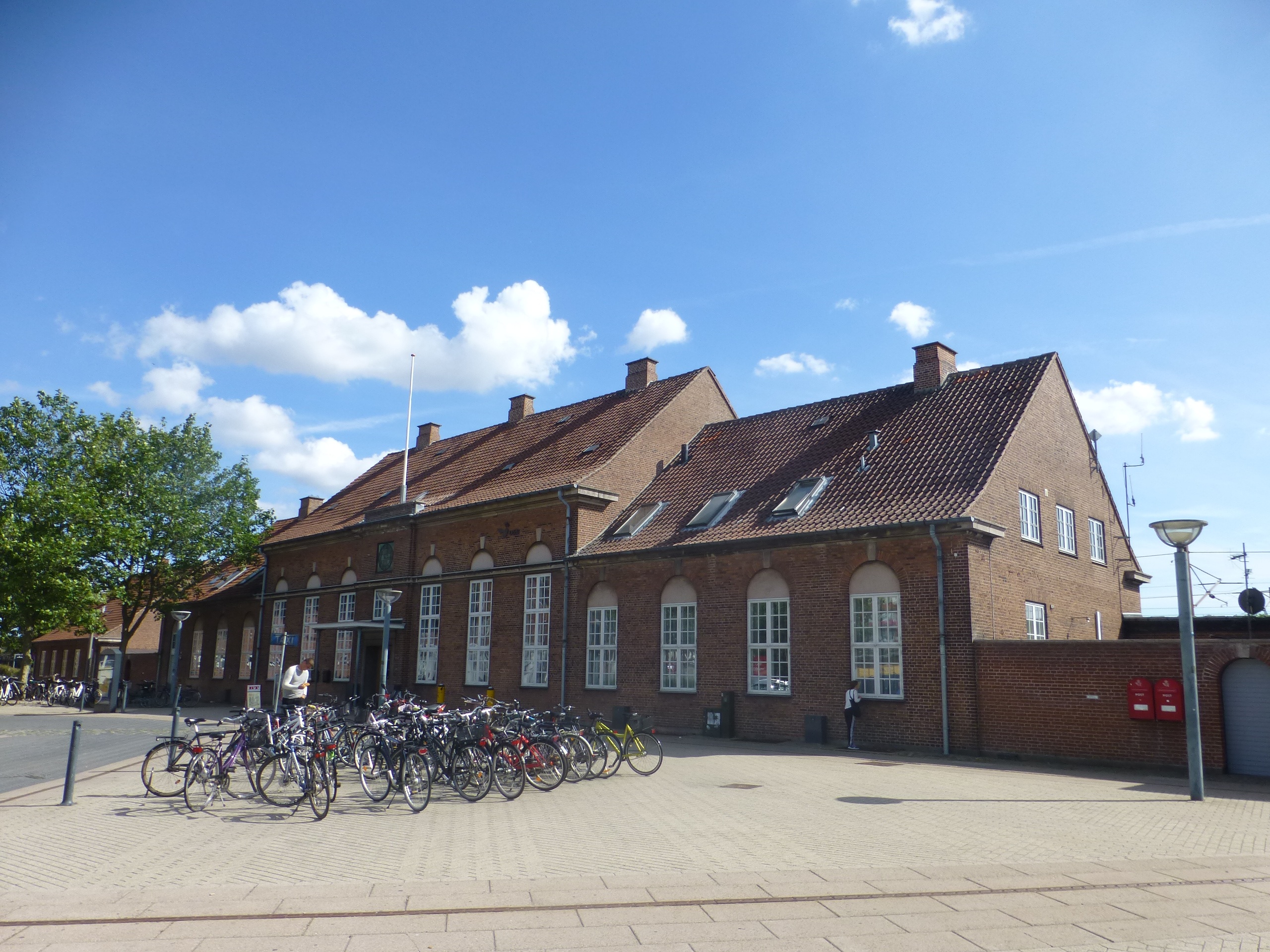 Ringsted Station on Vestbanen and Sydbanen in Denmark.